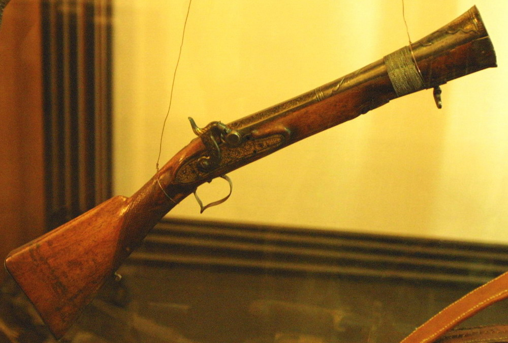 blunderbuss